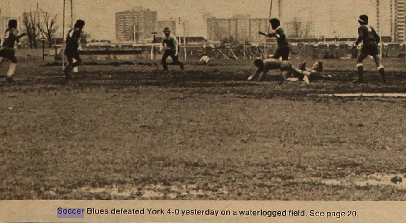 Varsity Blues defeated York University 4-0 in the 1971 OUAA Final at York University